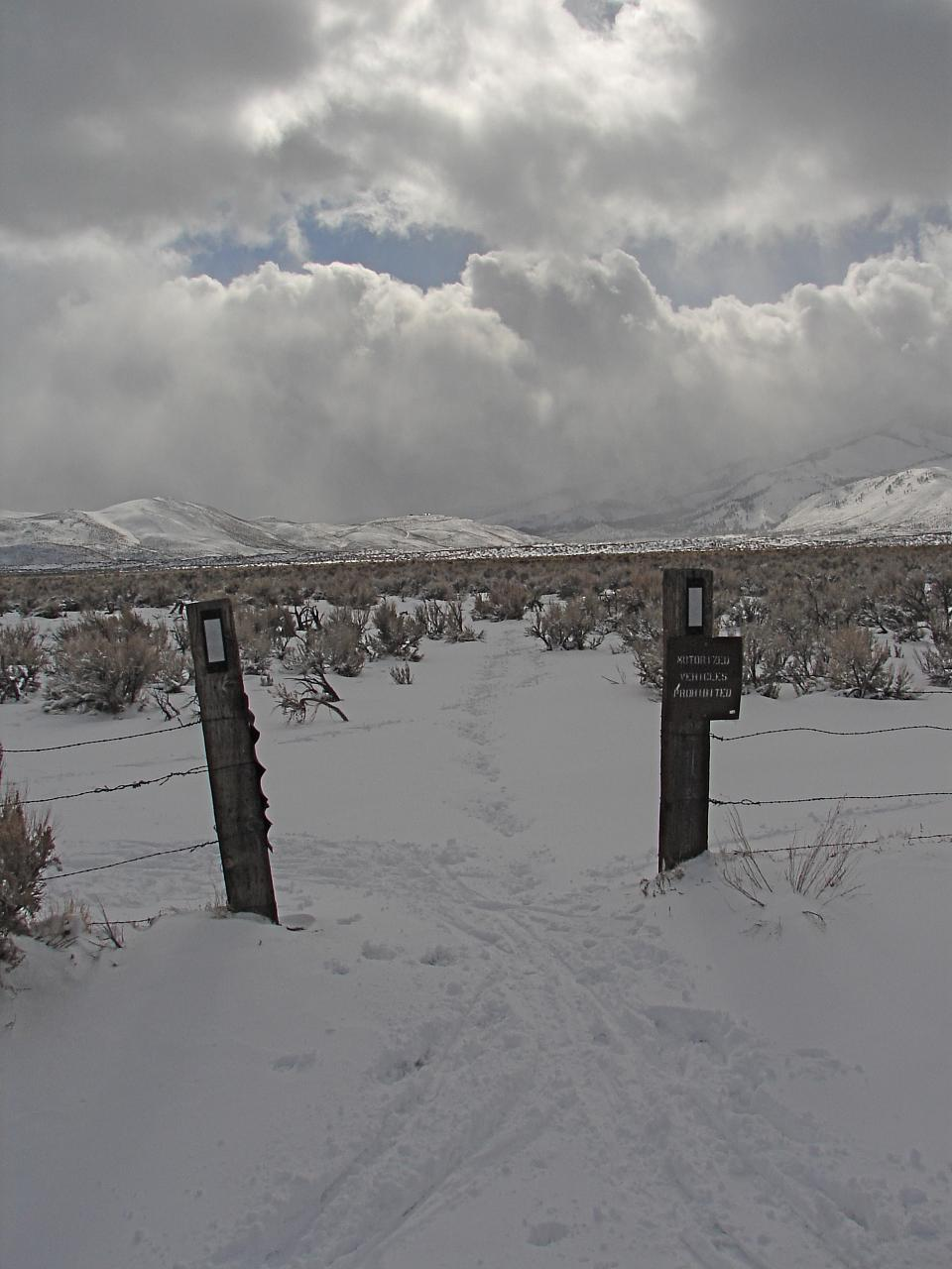 Snowy winter scene of an entrance to a non-motor vehicle area at Washoe Lake State Park, in Washoe Valley, Washoe County, Nevada.